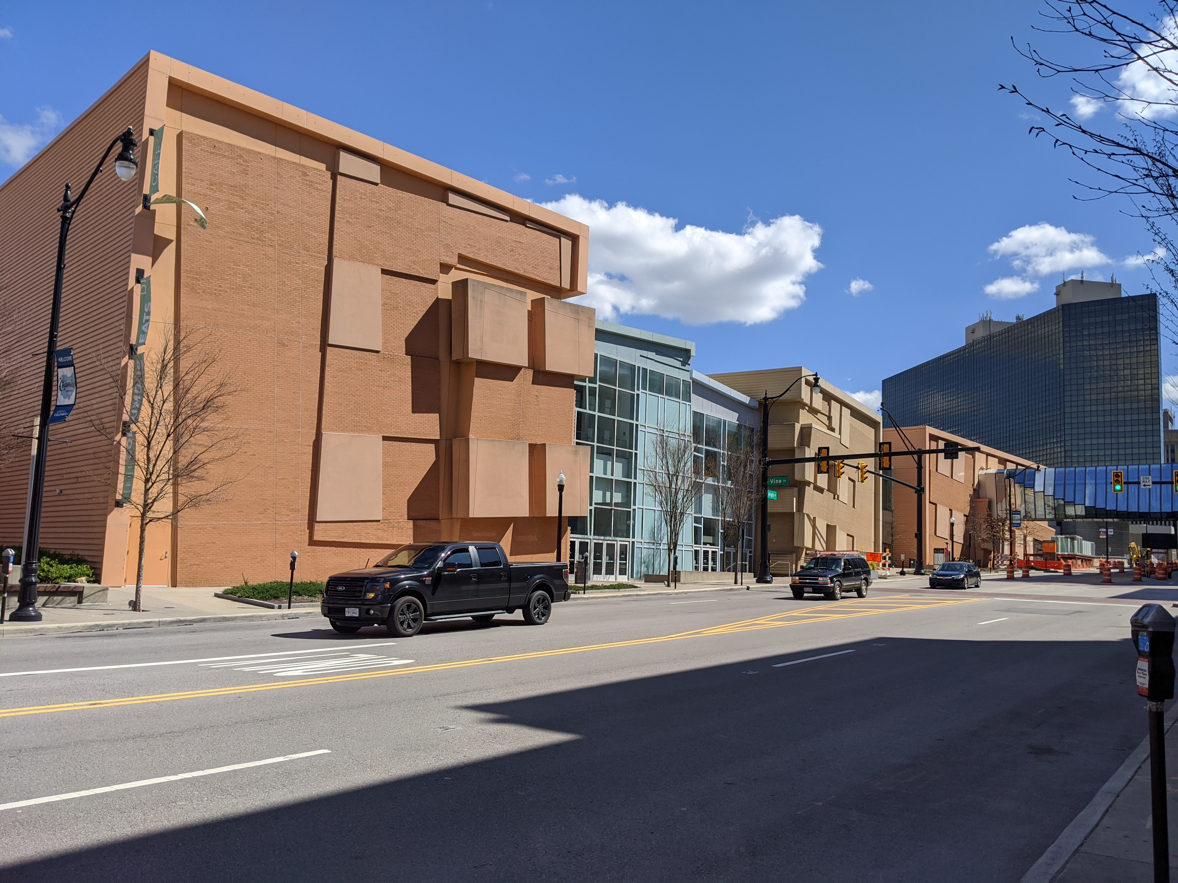 Greater Columbus Convention Center in Columbus, Ohio.